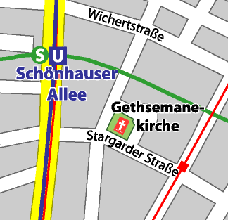 Map of the Gethsemanekirche in Berlin